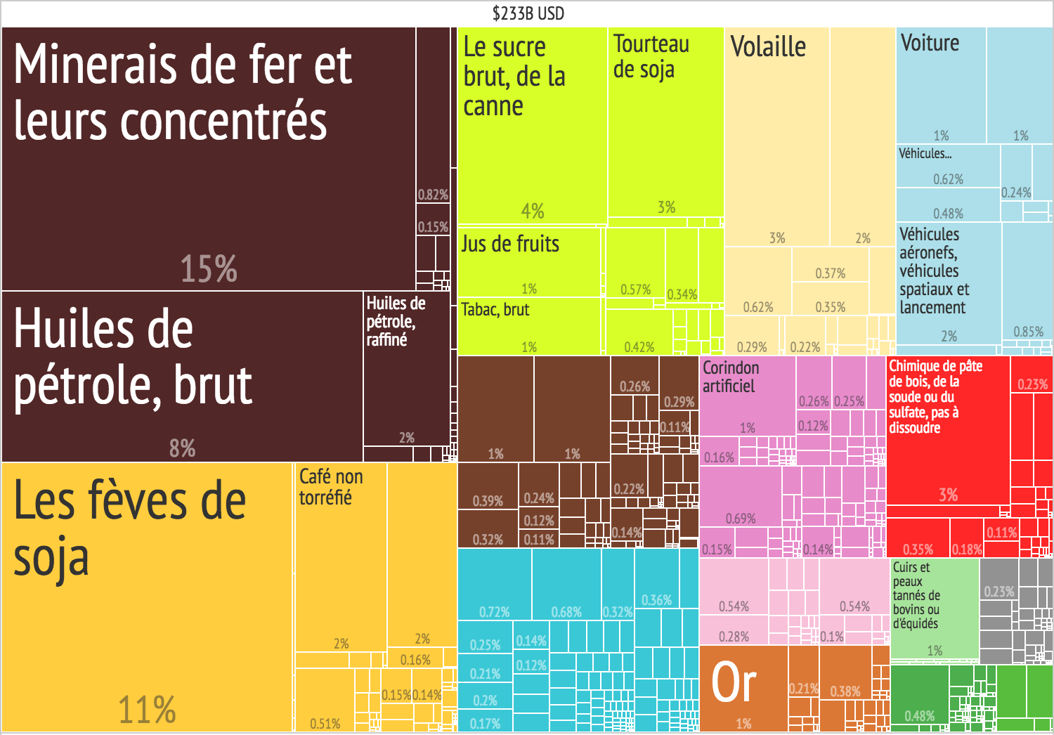 2014 produits bresil exportation treemap